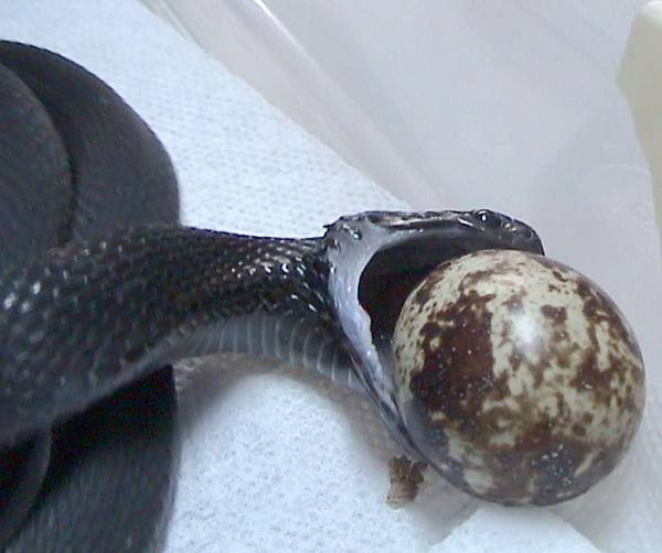 Photographer: User:Dawson